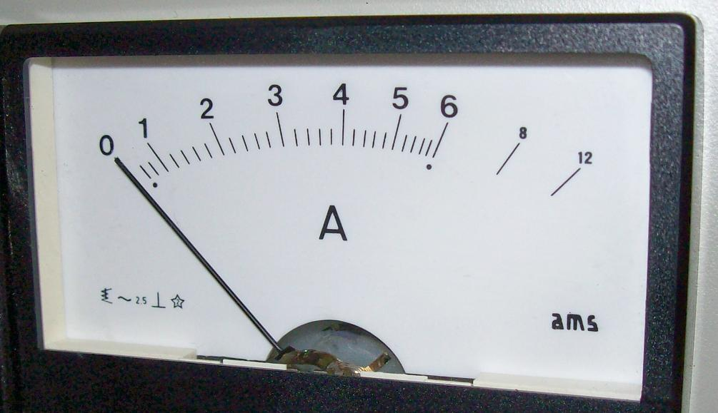 scale of an ampere meter